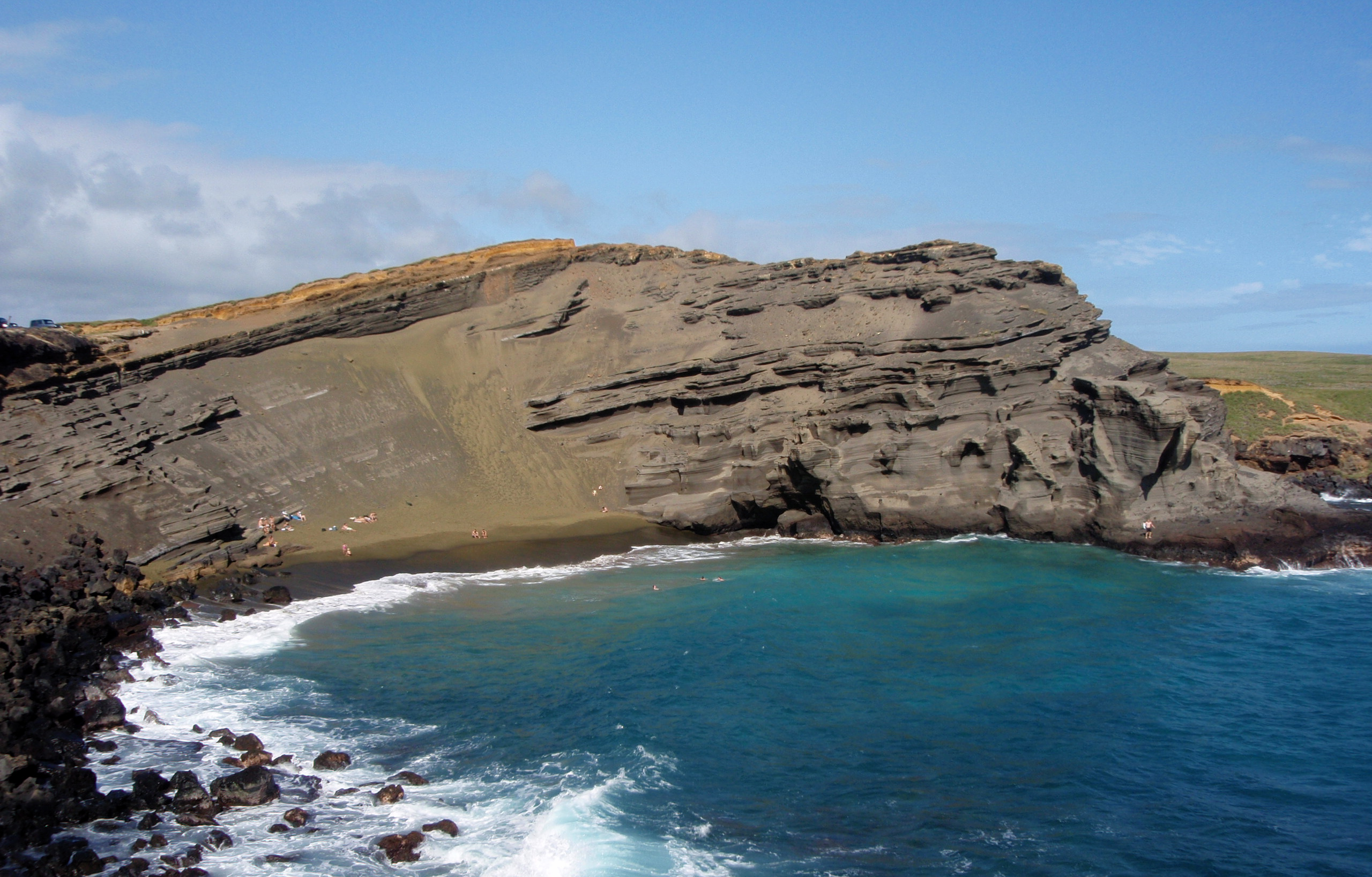 Overlook of Papakolea Beach from a nearby cliff.